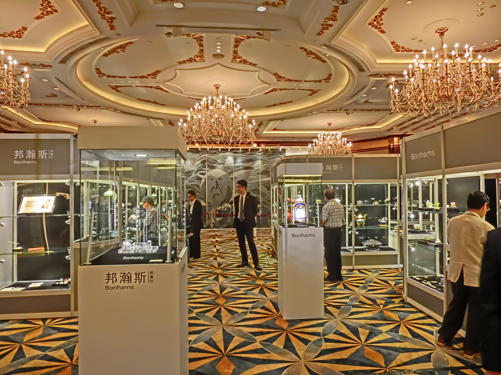 Bonhams Auction, Bonhams & Butterfield, Island Shangri-la Hotel, Admiralty, Queensway, Hong Kong